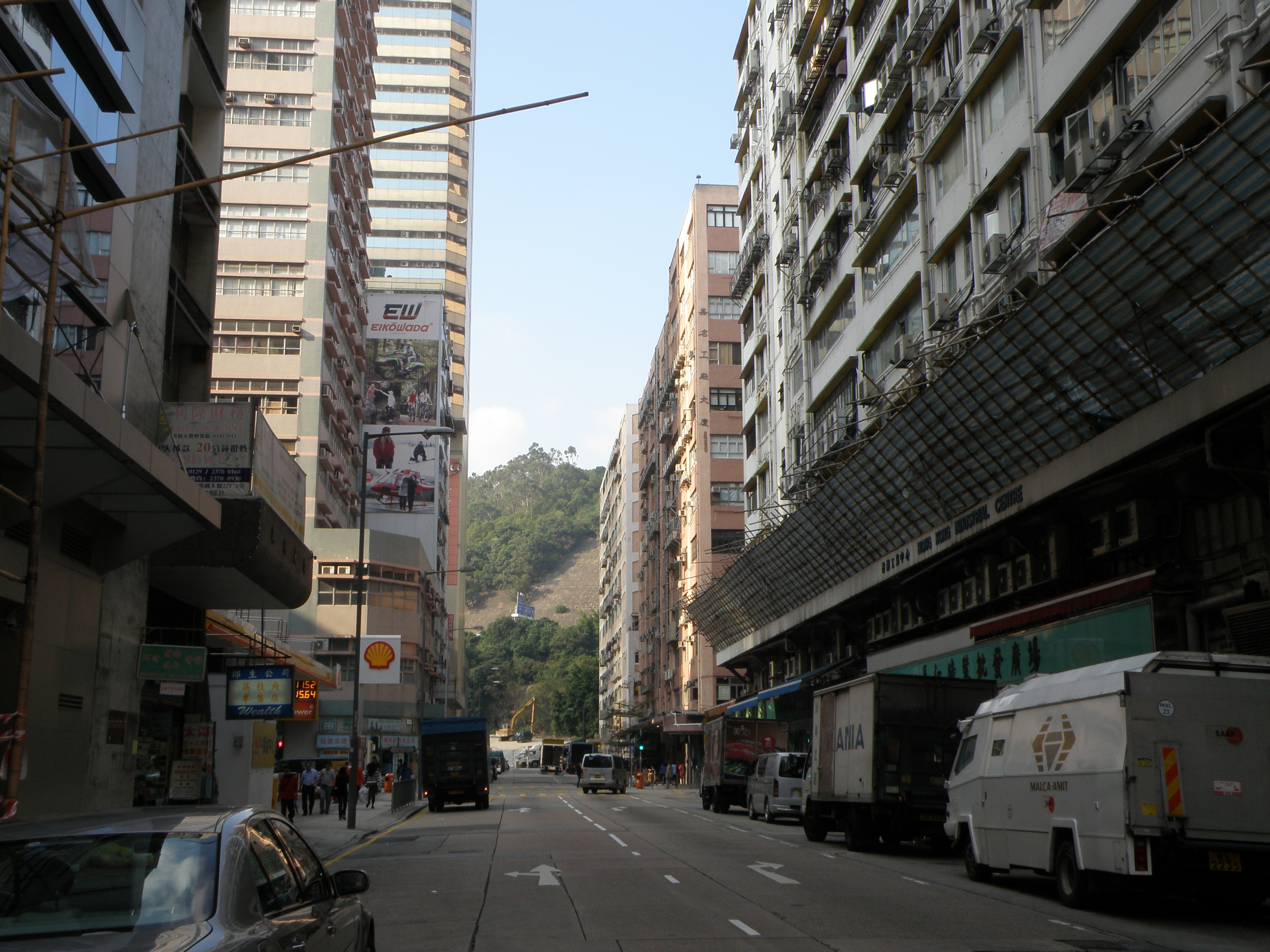 Tung Chau West Street in Lai Chi Kok, Hong Kong.